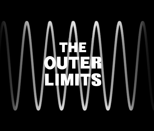 Title card for season 1 of The Outer Limits (1963), composed using public domain and free license materials (see other versions, below). Cropped version of this file, dimensions roughly equal to that of the original TV title card.